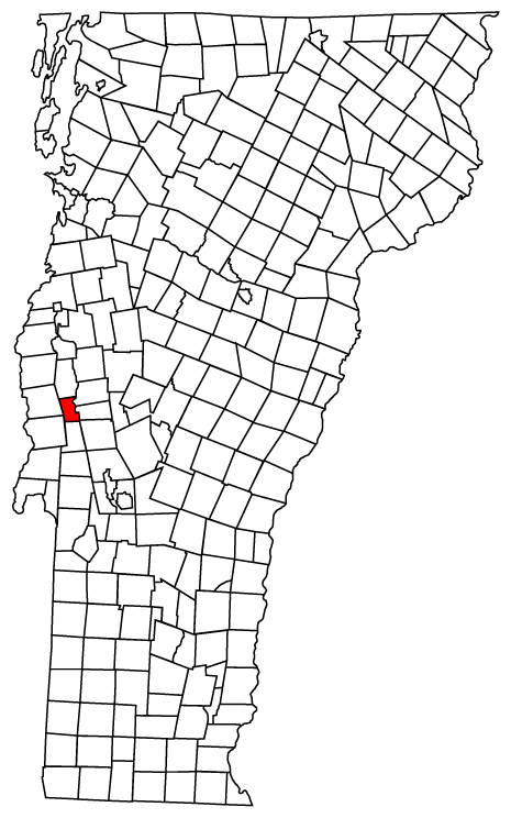 Map of Vermont towns with Whiting highlighted